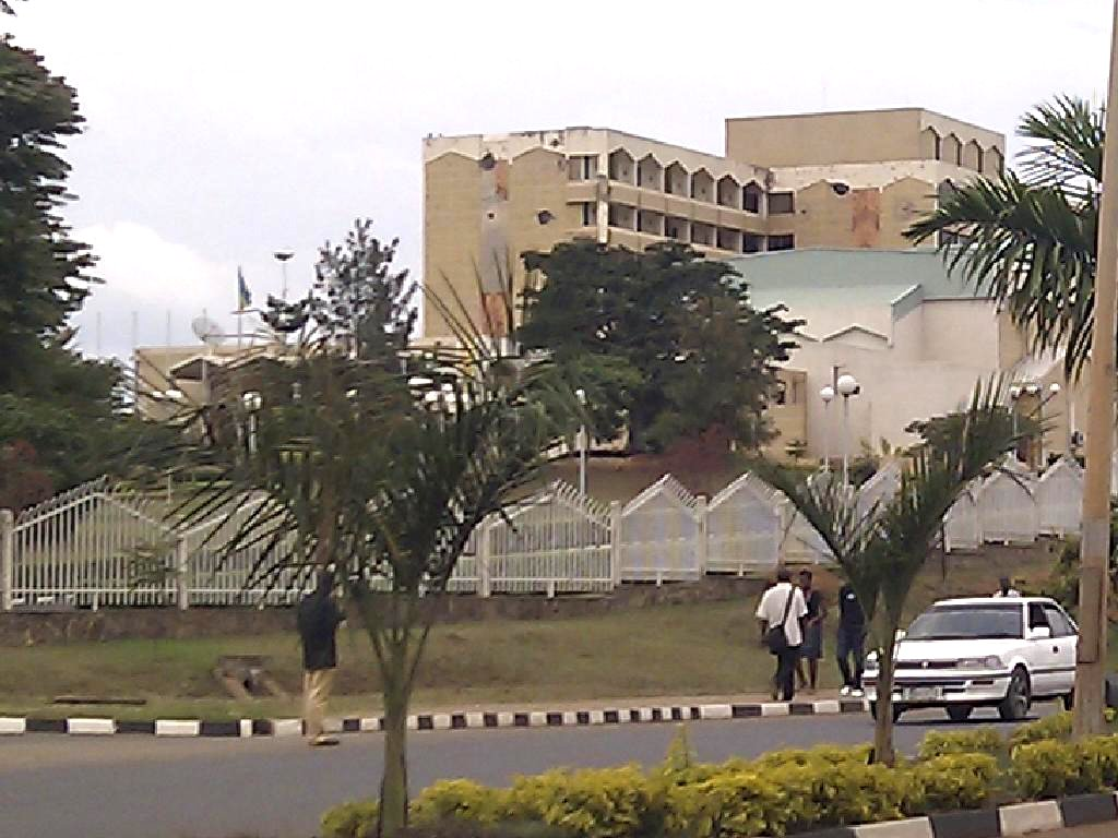 Parliament building in Kigali, Rwanda.